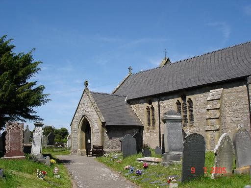 Llysfaen Church. Parish church of Lysfaen